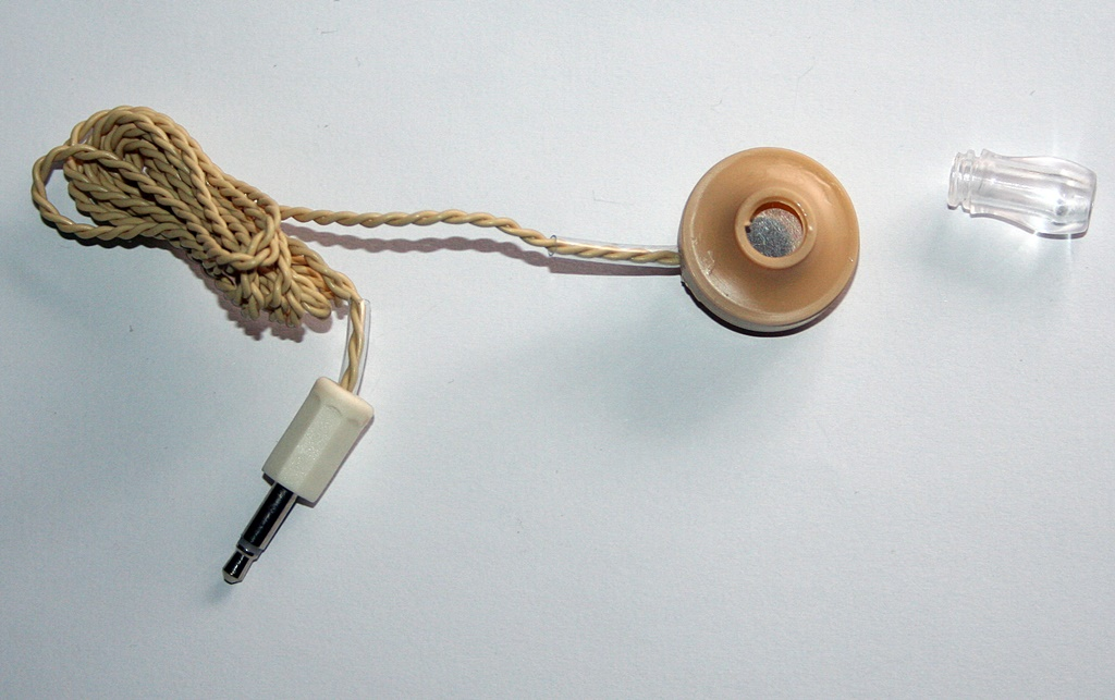 disassembled crystal earpiece